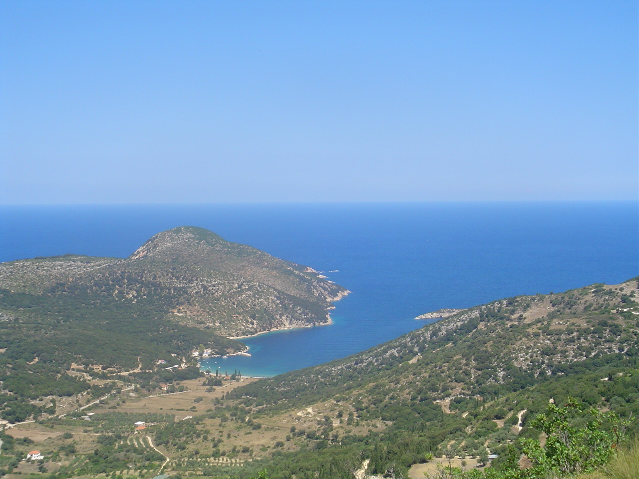 Porto Atheras